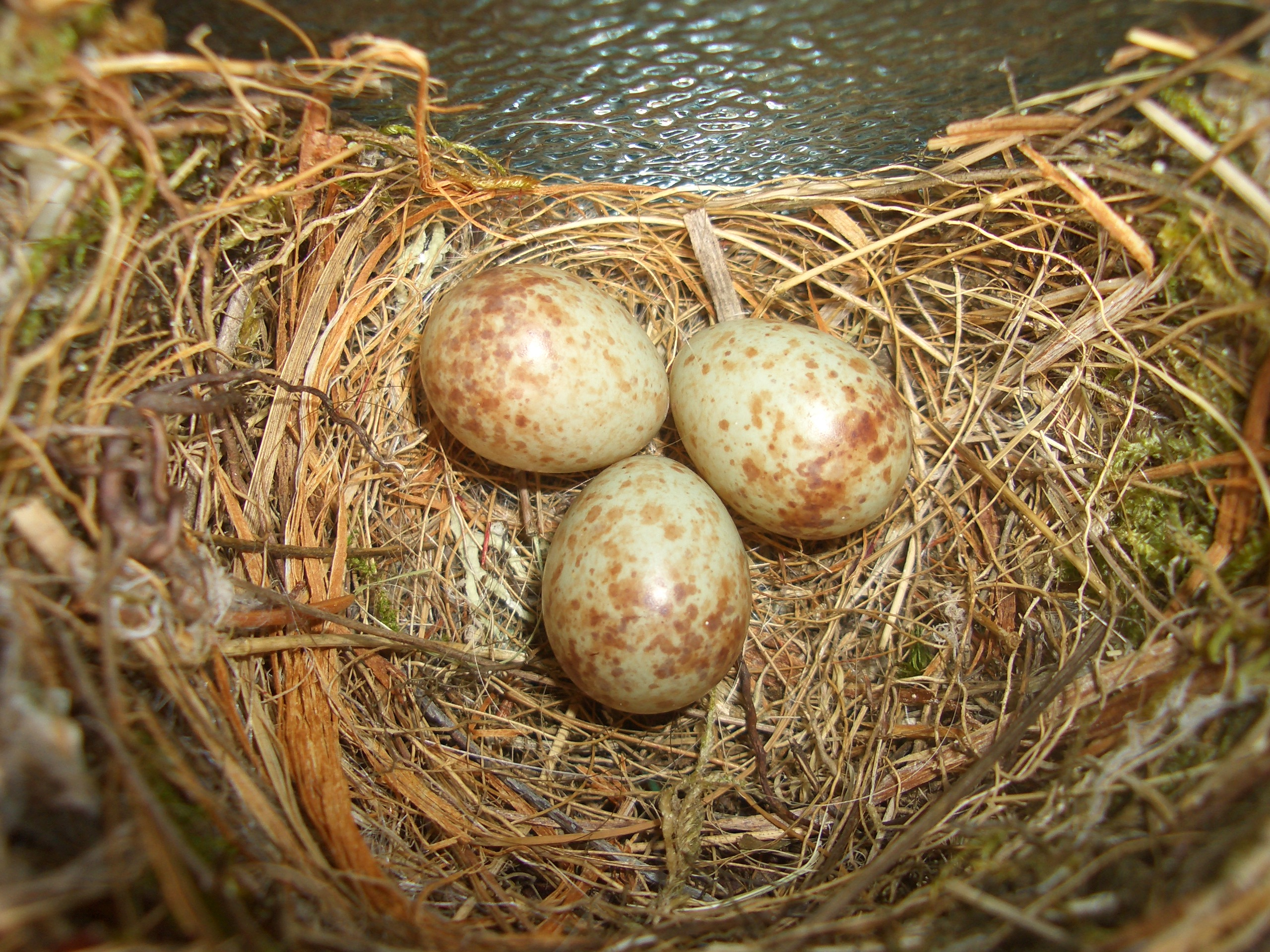 clutch of a spotted flycatcher (Muscicapa striata)